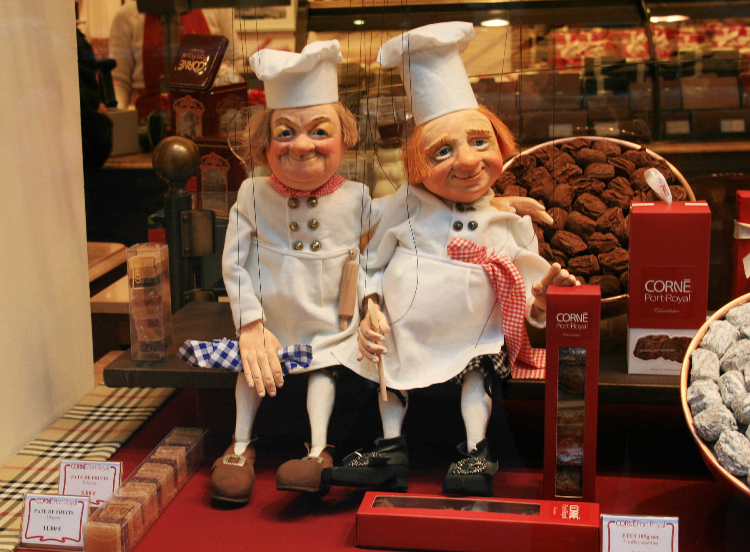 Shop-windoe with belgian pralines in Brussels, Belgium